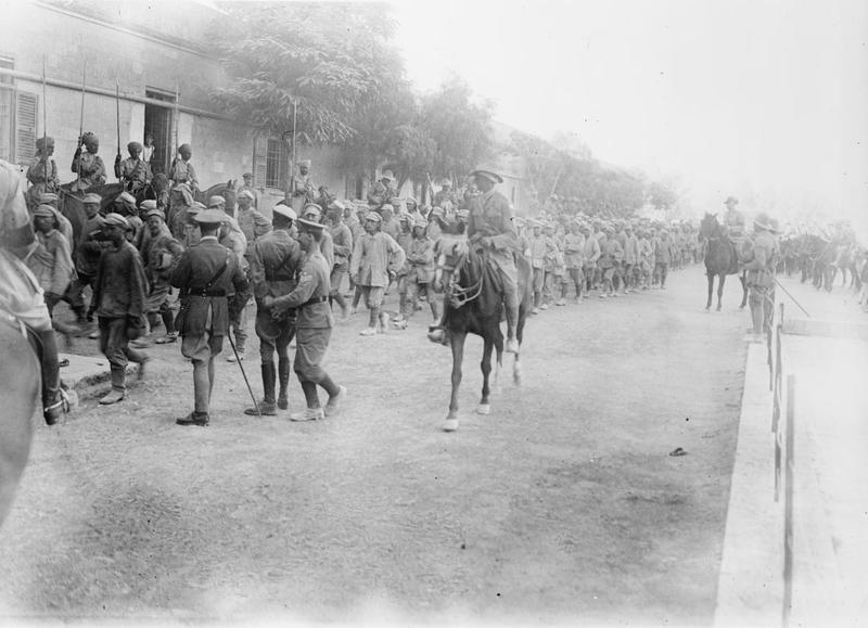 Arrival of German prisoners taken in the 2nd Transjordan Raid arriving at the Compound escorted by men of the Australian and New Zealand Mounted Division, and Indian Imperial Service Cavalry. May 1918.